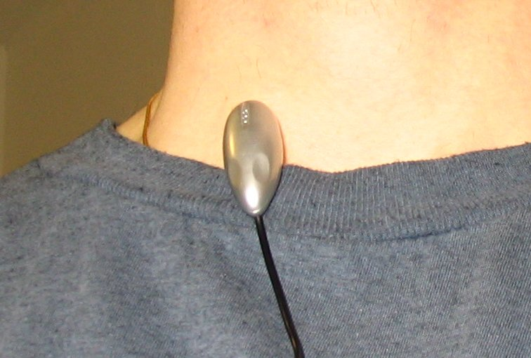 A SpeedLink Elara SL-8701 Lavalier microphone mounted on a T-shirt